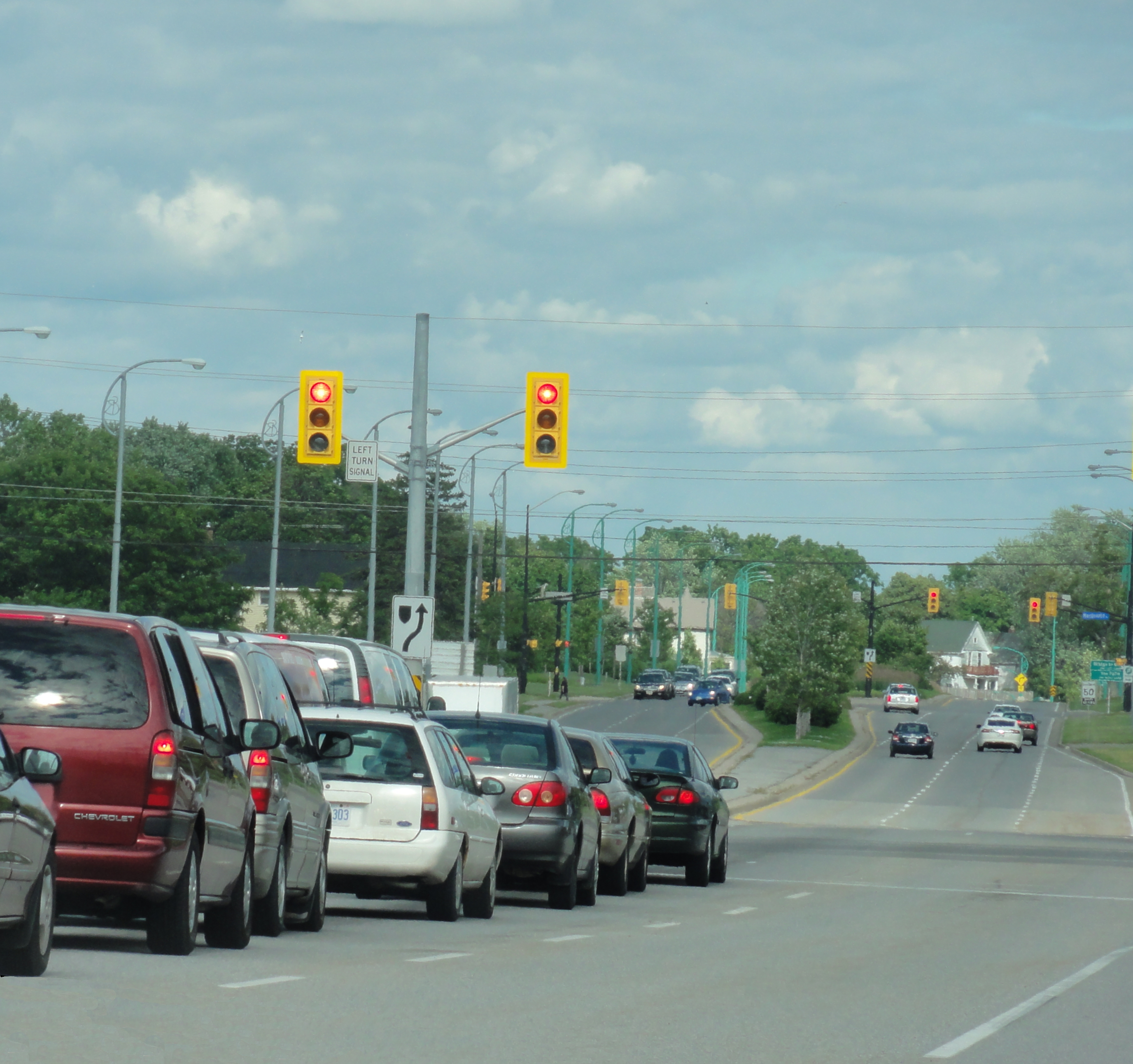 420 Expressway.